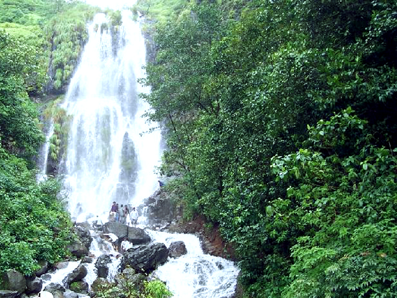 nilesh